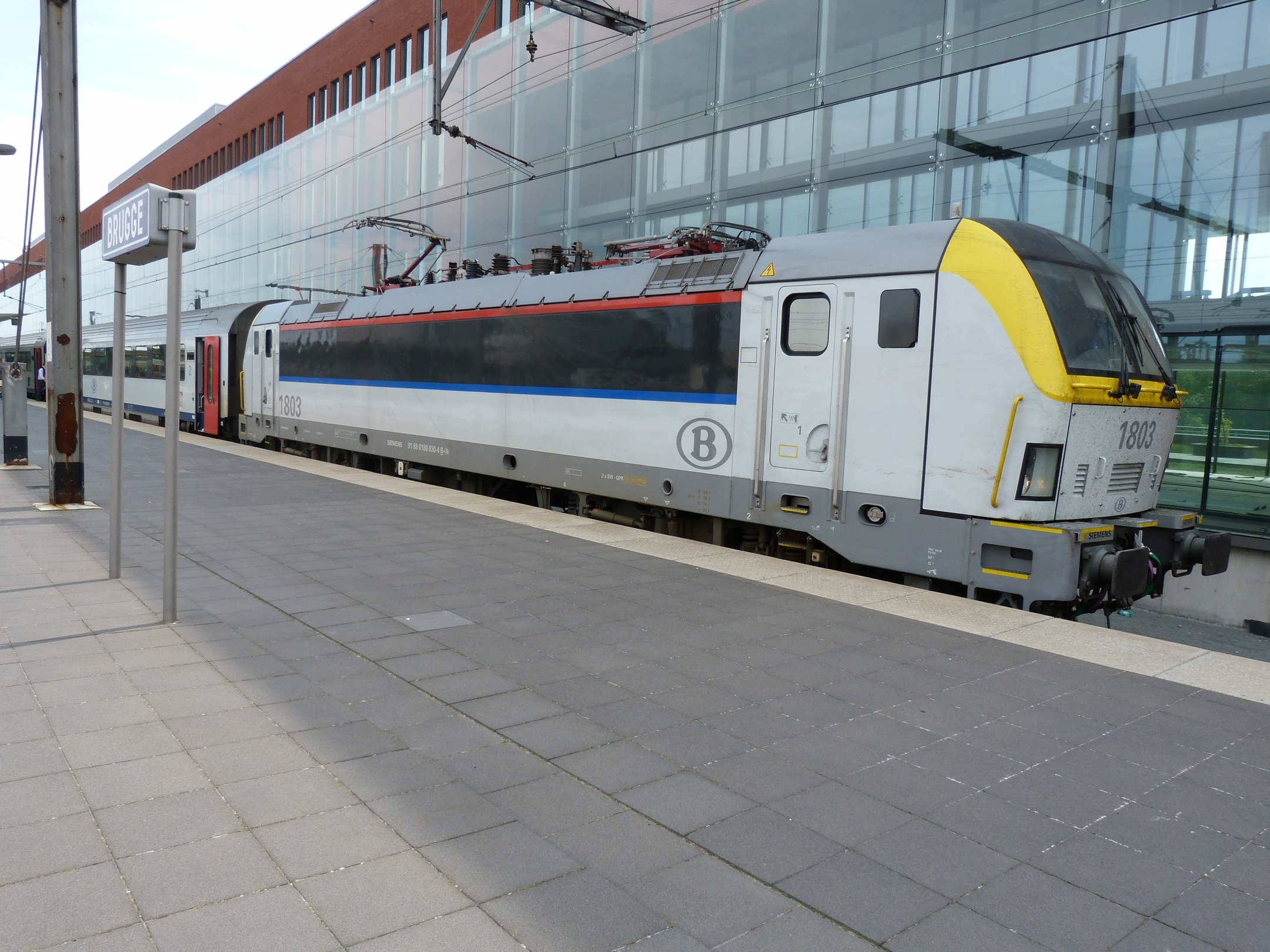 SNCB/NMBS loc 1803 in Bruges railway station.